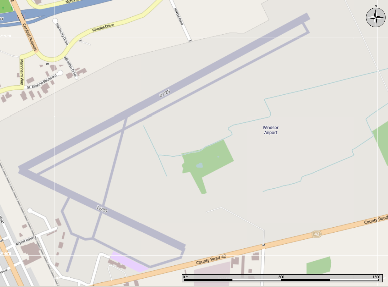 Open Street Map showing the Windsor ON airport. Made using the Marble program, cropped with GIMP.